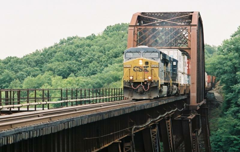 © 2010 Philip M. Goldstein